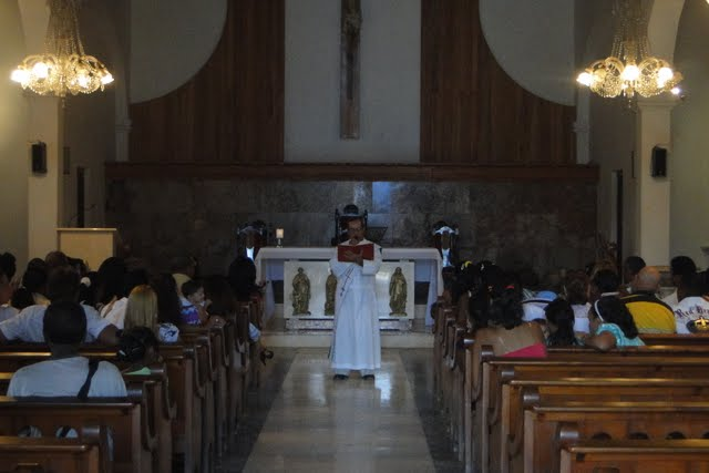 In the church, Guantanamo